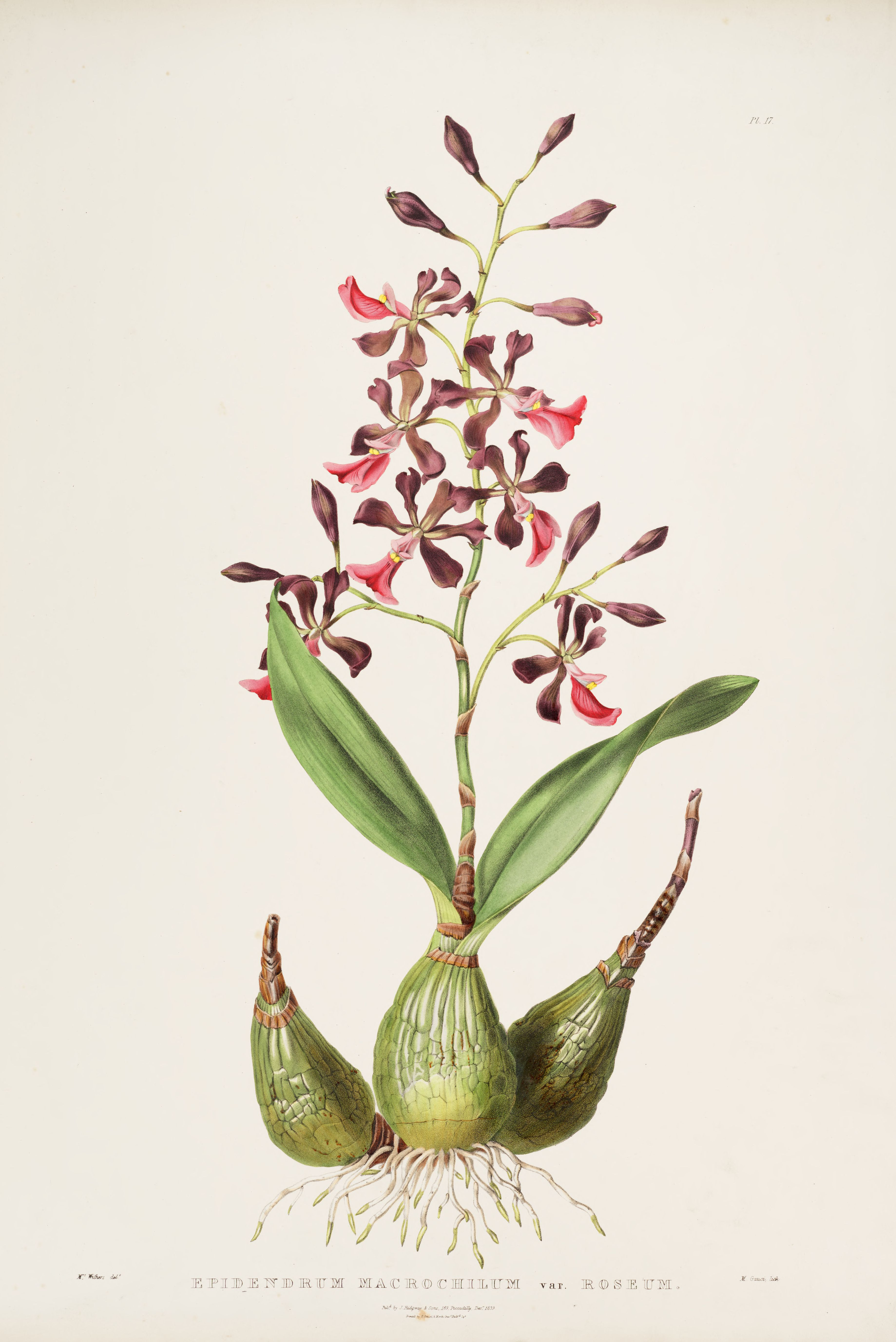 Illustration of Encyclia cordigera (as syn. Epidendrum macrochilum var. roseum)